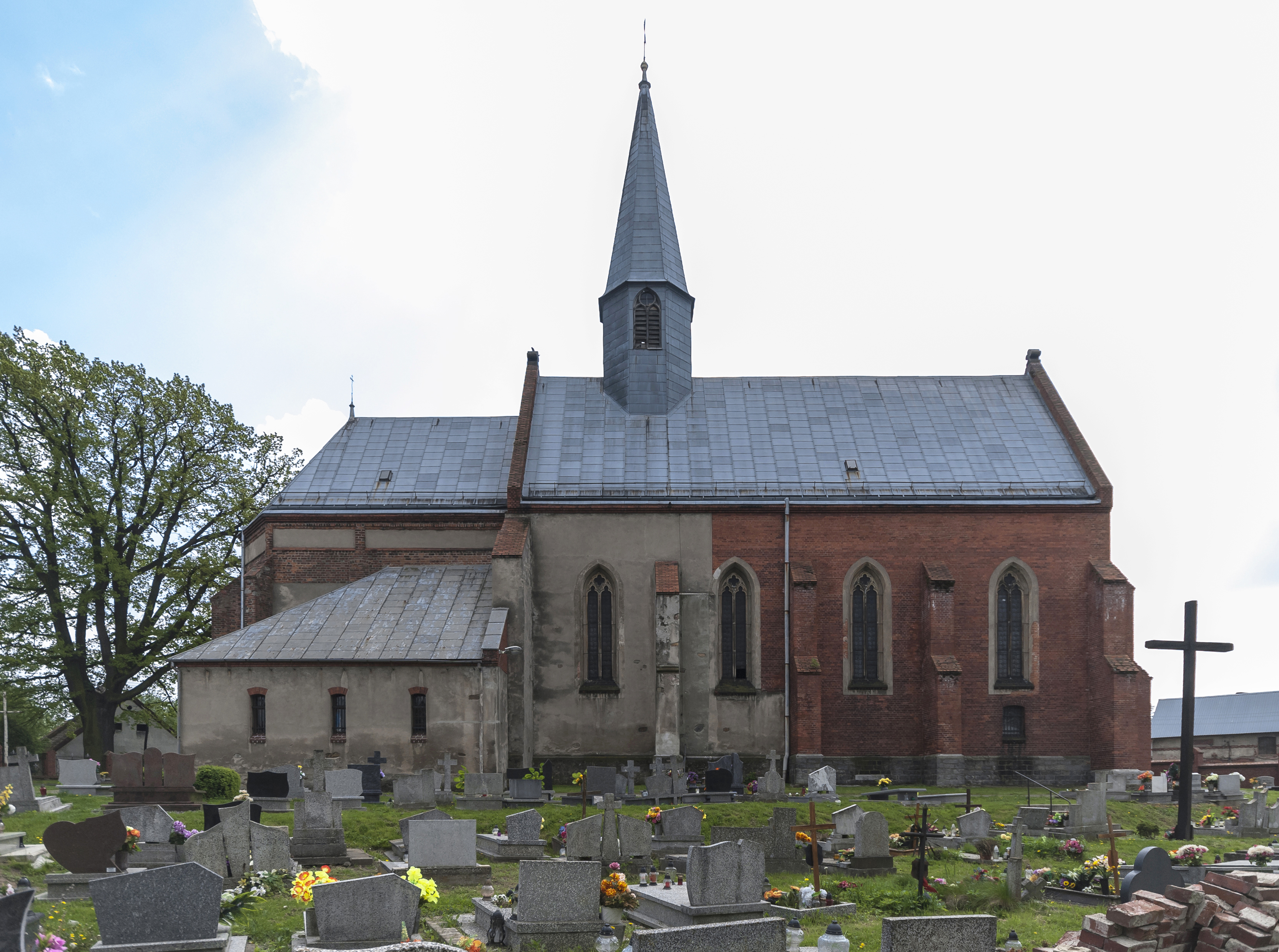 Church of All Saints in Stary Paczków